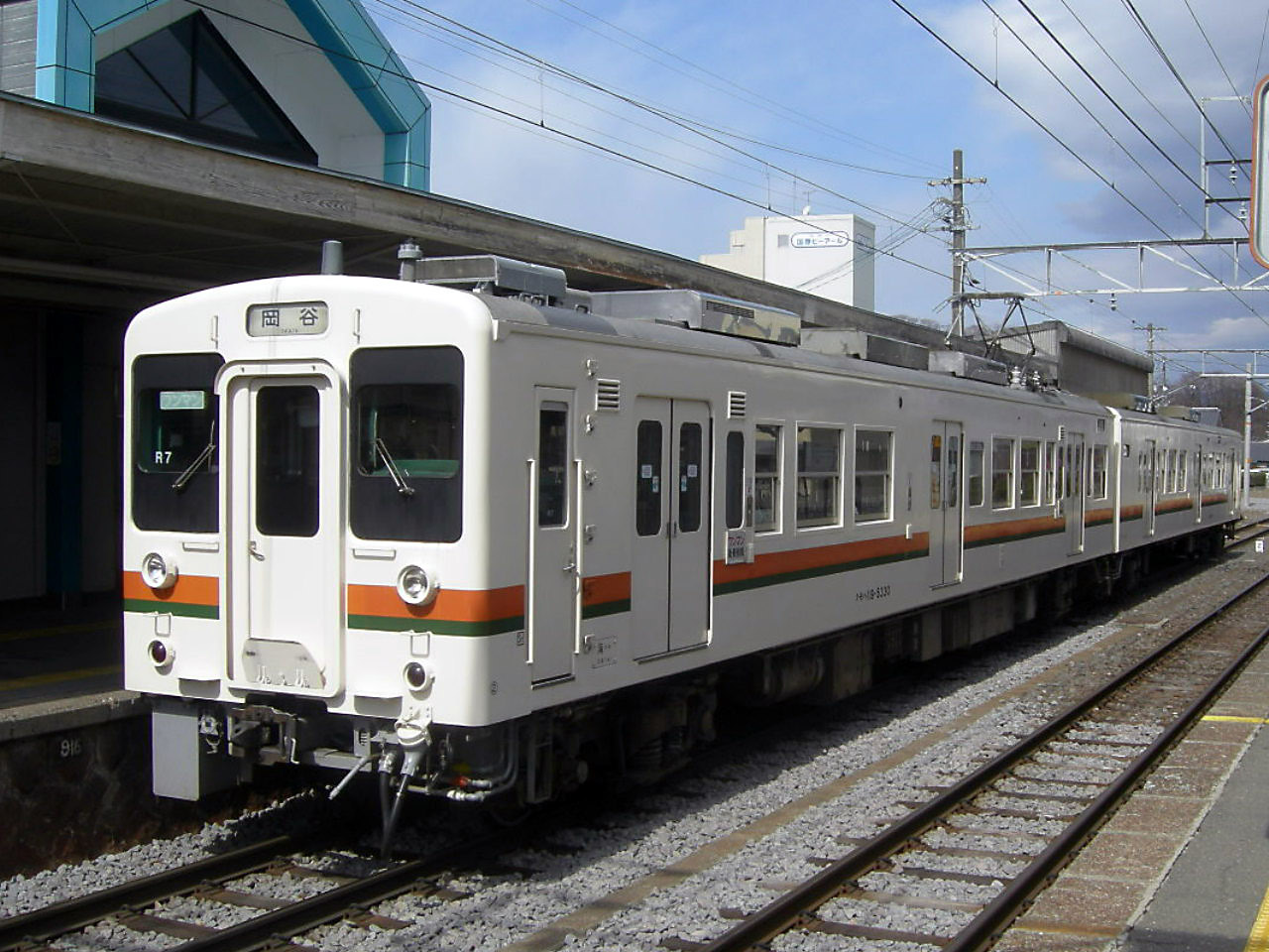 JR Central 119-5300 at Iida Line Ina-Kita Station